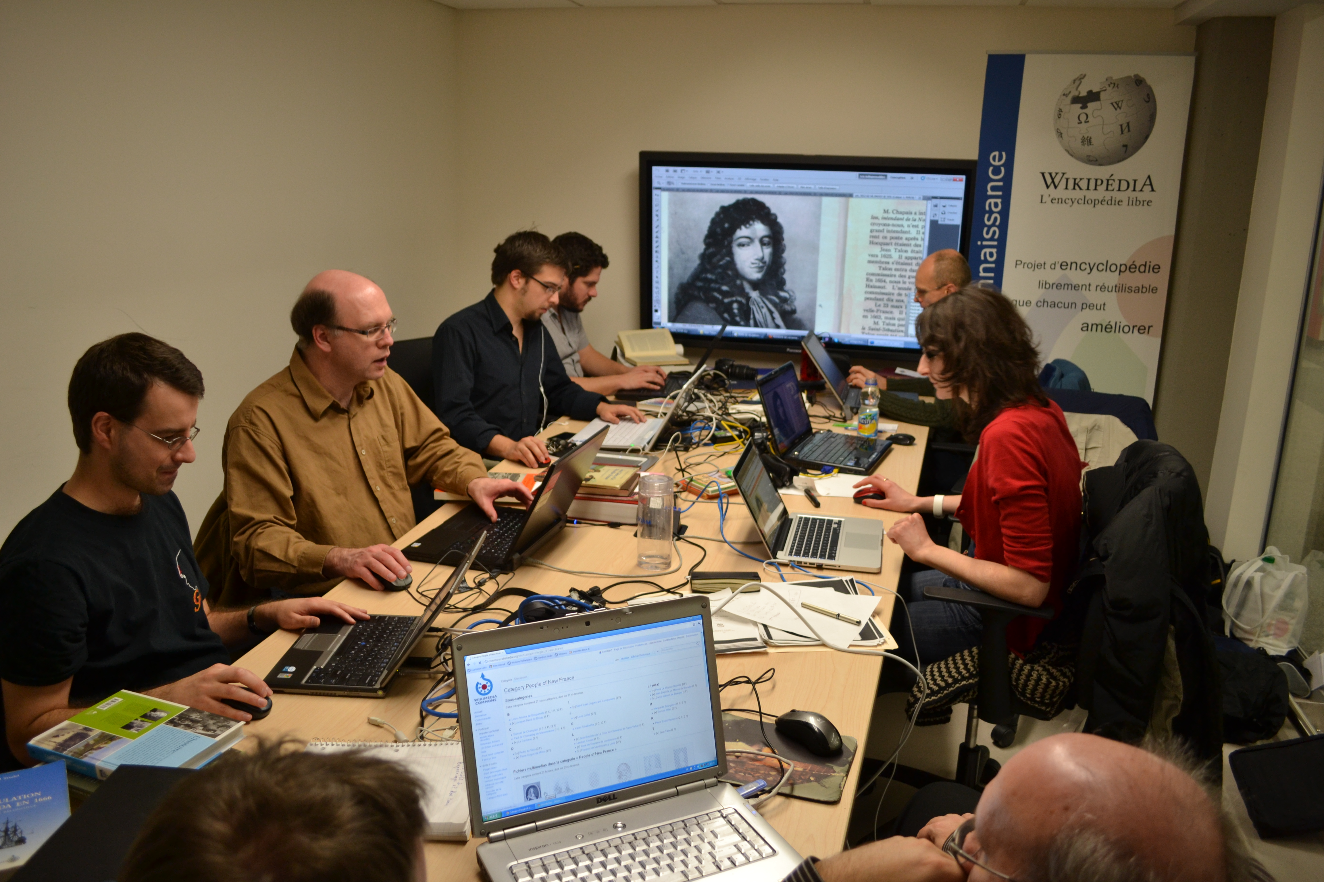 Contributory Day of WikiProject Quebec at Université Laval, Feburuary 18th, 2012. Targeted article: Jean Talon (en), first intendant in New France.